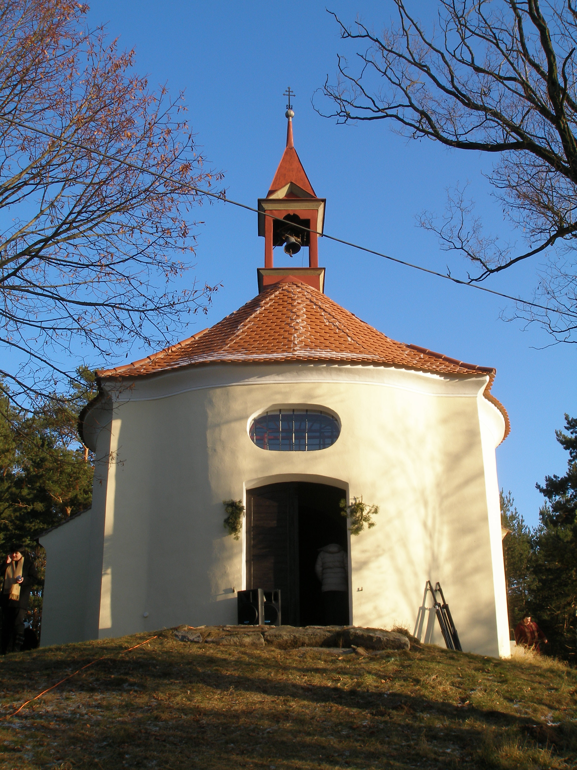 Libčice (part of the town Nový Knín) - St. John and Paul chapel